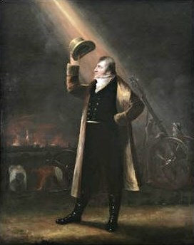 Portrait of William Congreve Esq. by James Lonsdale (1777-1839)